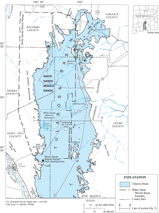 Location map of Tularosa Basin 2004